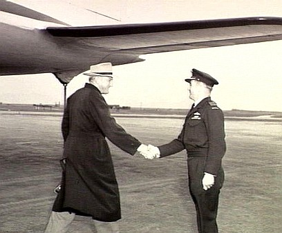 Iwakuni, Japan. 1953-04-26. Group Captain D.R. Chapman, Officer Commanding No. 91 (Composite) Wing RAAF greets Air Vice-Marshal E.C. Wackett on the latter's arrival in Japan for a visit to RAAF units in Japan and Korea.